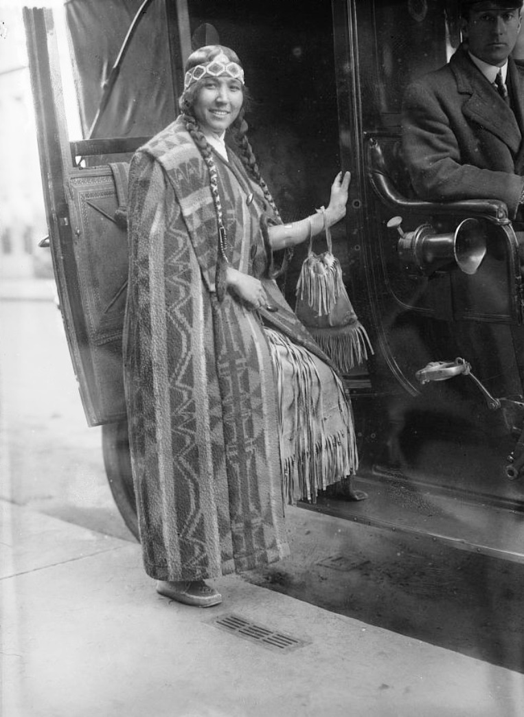 Tsianina Redfeather Blackstone in 1915 looking forward